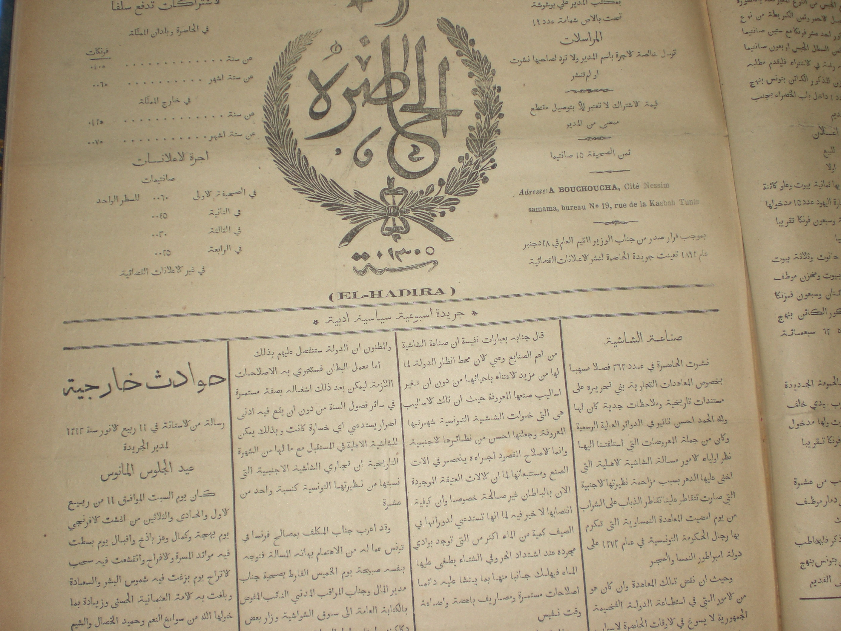 The first Arabic Tunisian independent Newspaper called Al Hadhira — 1888.